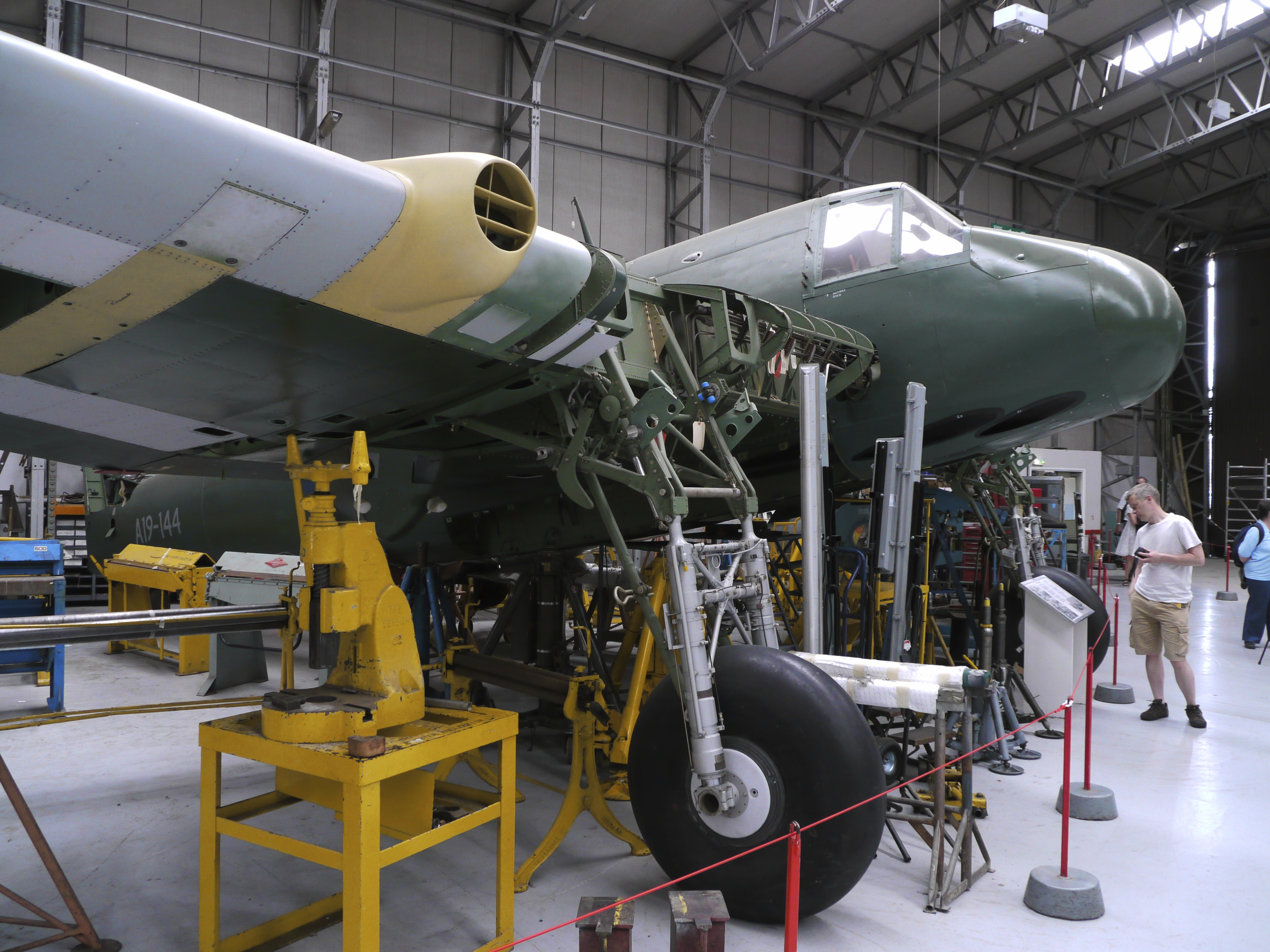 Bristol Beaufighter JM135 A19-144, at Imperial War Museum Duxford.